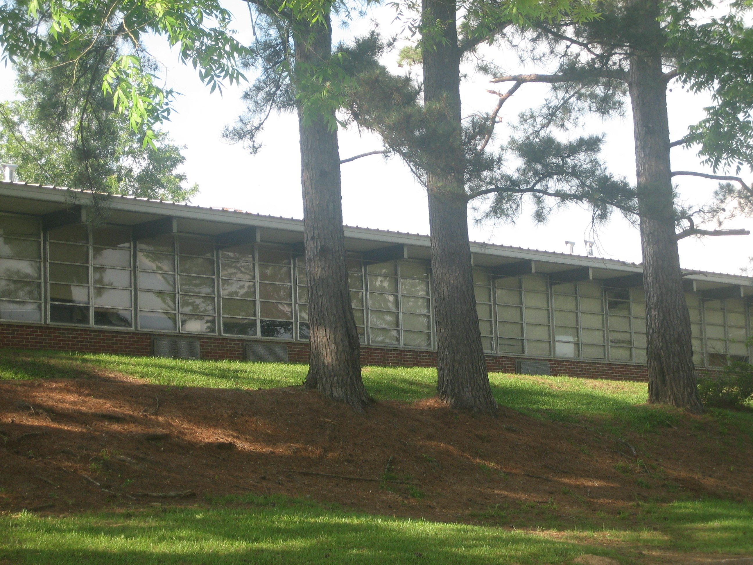 I took photo on May 25, 2009.Billy Hathorn (talk) 02:52, 30 May 2009 (UTC)